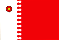 Flag of Rajon Rîșcani